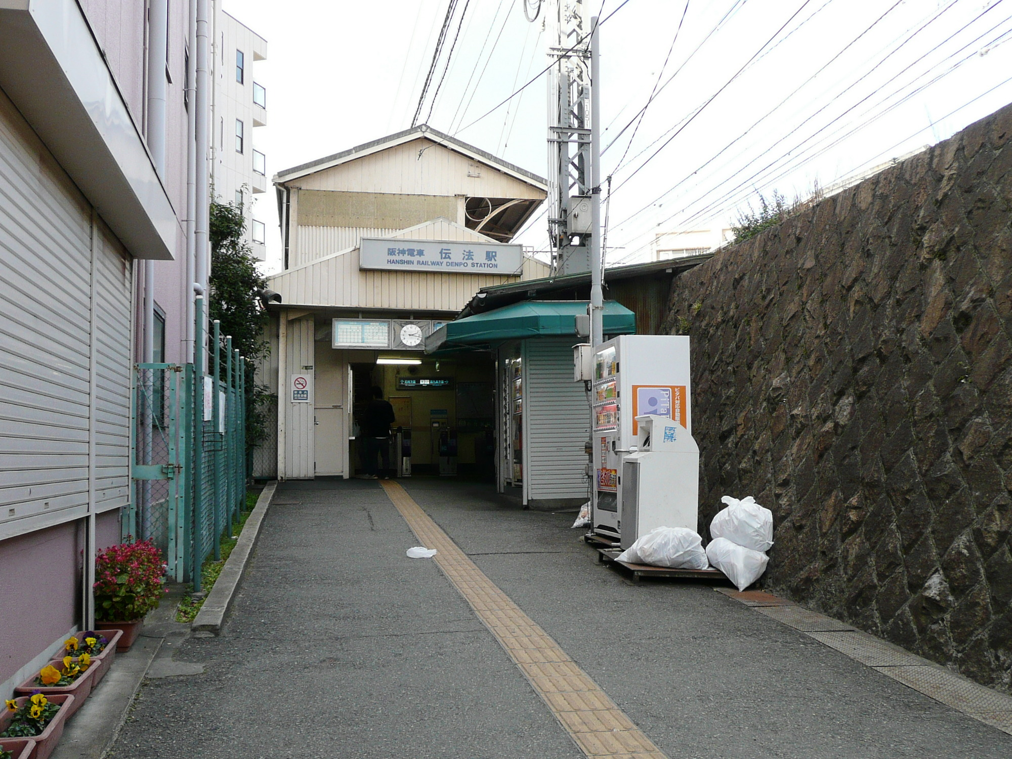 Hanshin Electric Railway,Nishi-Osaka Line,Denpo Station. /阪神西大阪線伝法駅